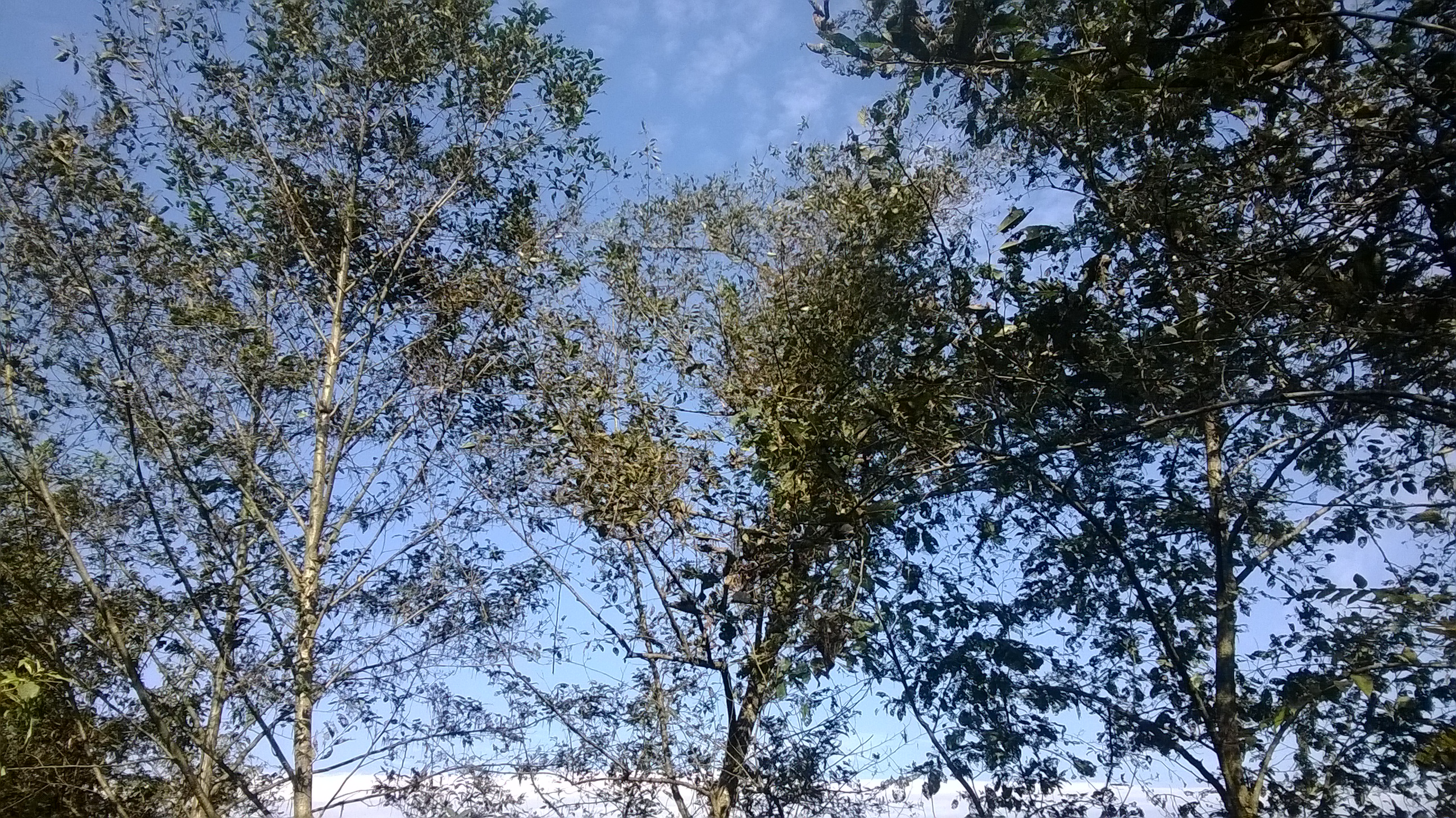 Alnus nepalensis in Dulalthok.